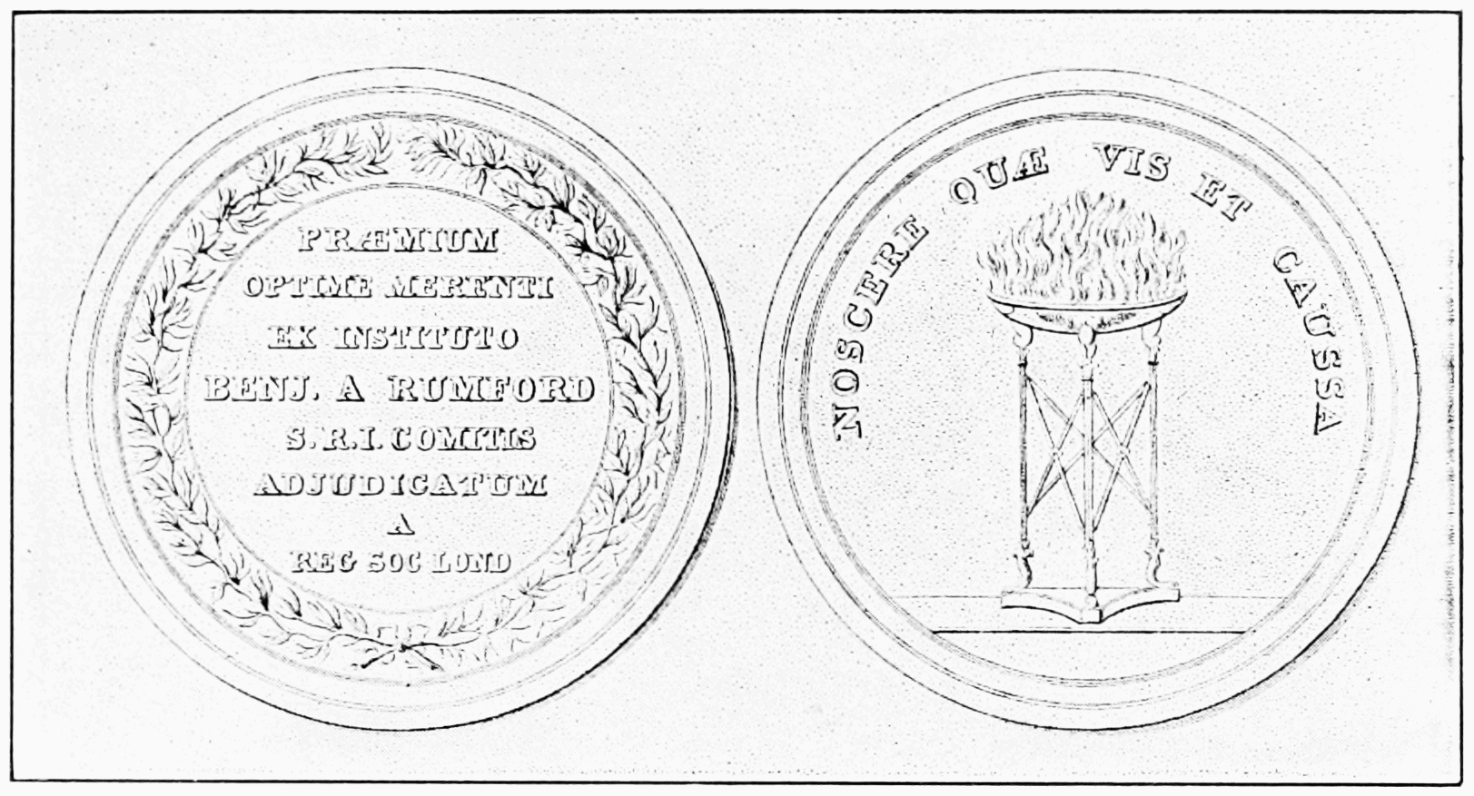 Rumford medal of the Royal Society